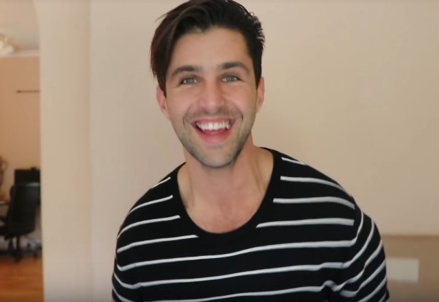 Josh Peck in 2017 from DAVID DOBRIK'S REALLY STUPID PLAN TO SAVE JOSH PECK'S CAREER